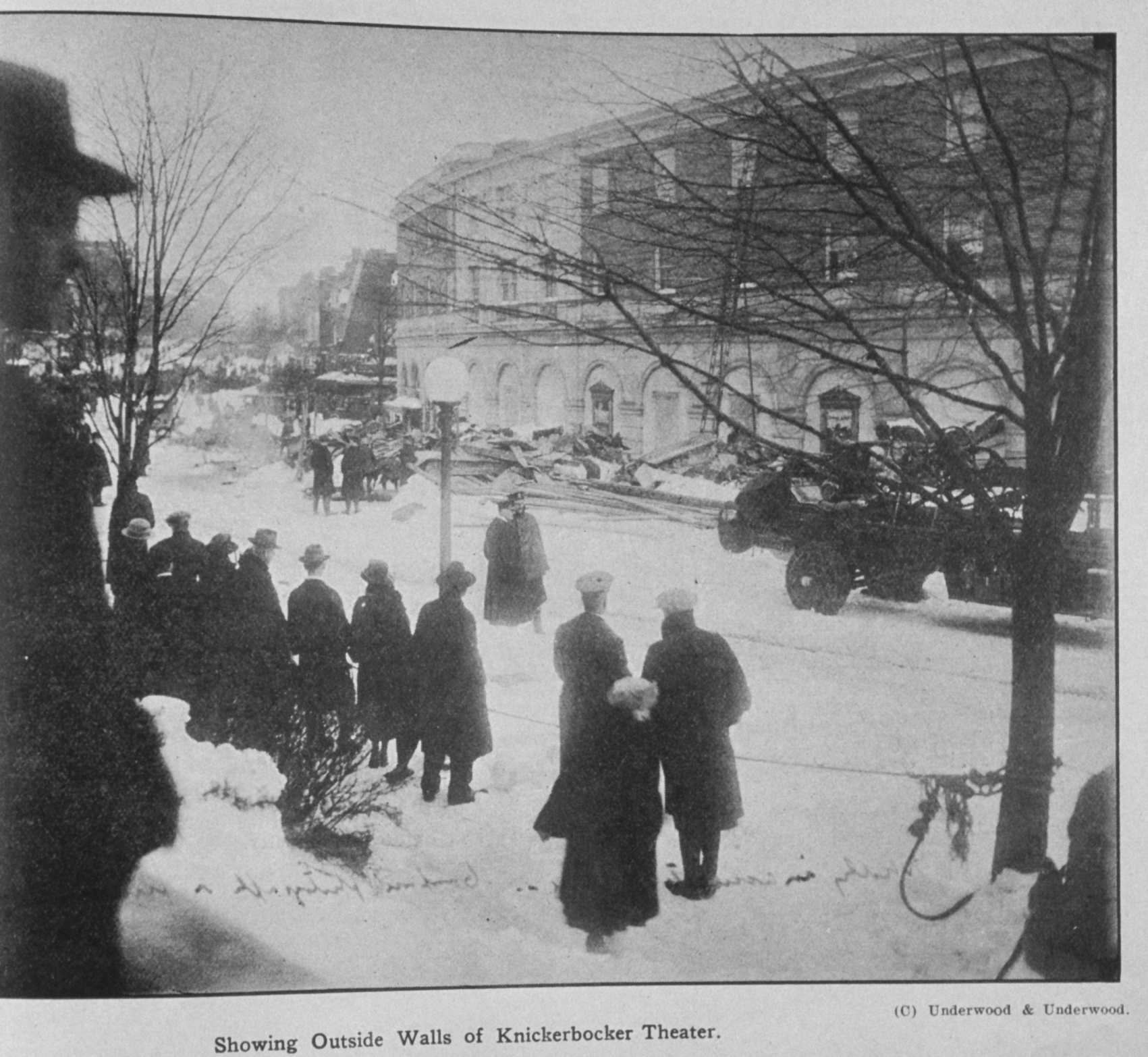 Listed as part of NOAA Historical Photo Collection